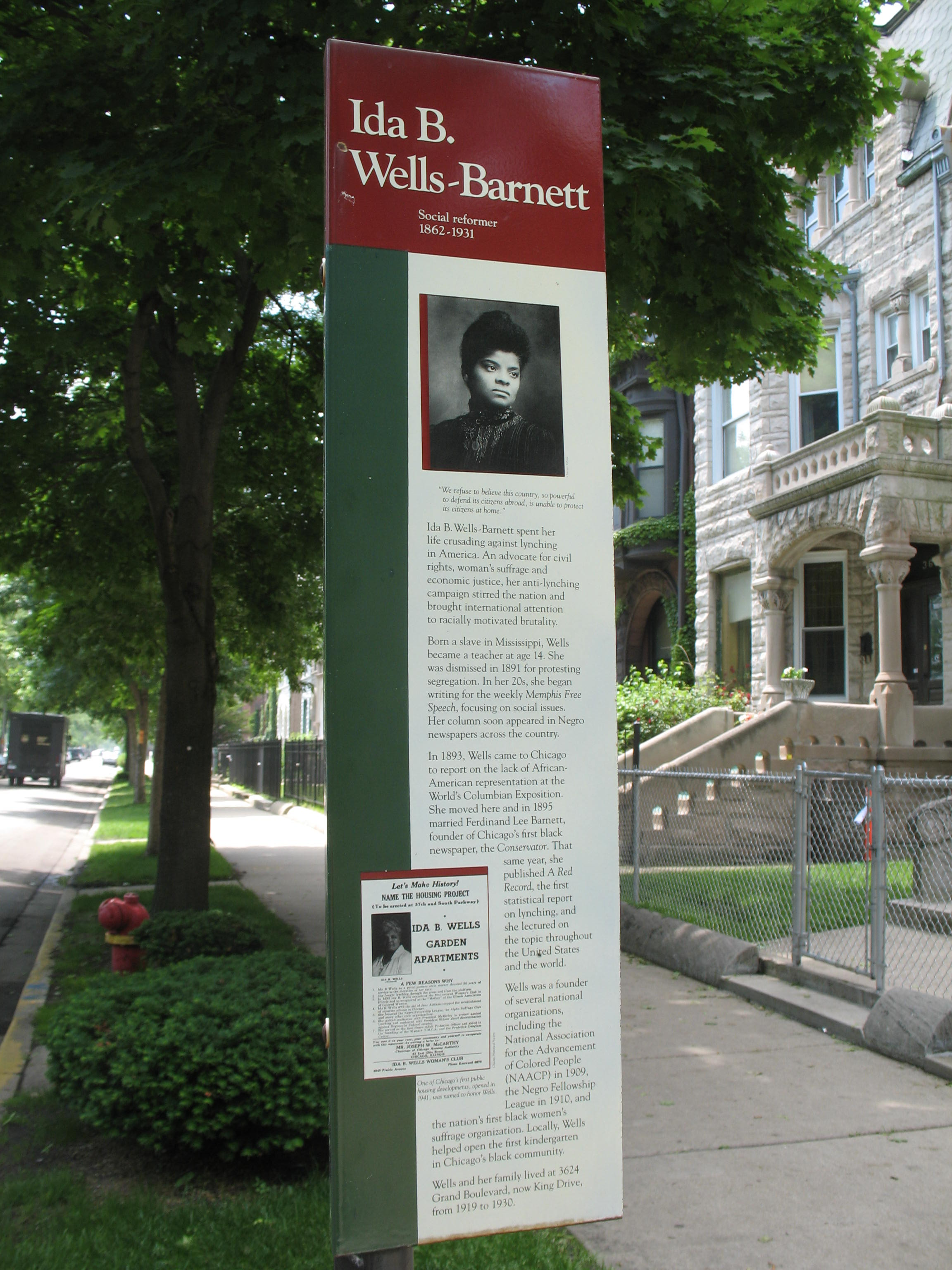 Ida Wells House plaque